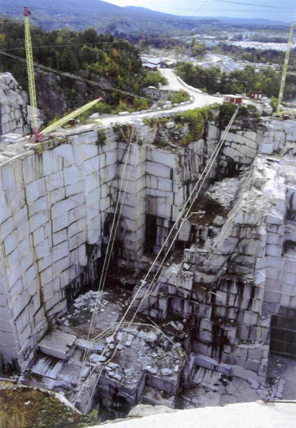 The E. L. Smith Quarry, where the Barre Granite is mined, Washington County, Vermont. 2003.